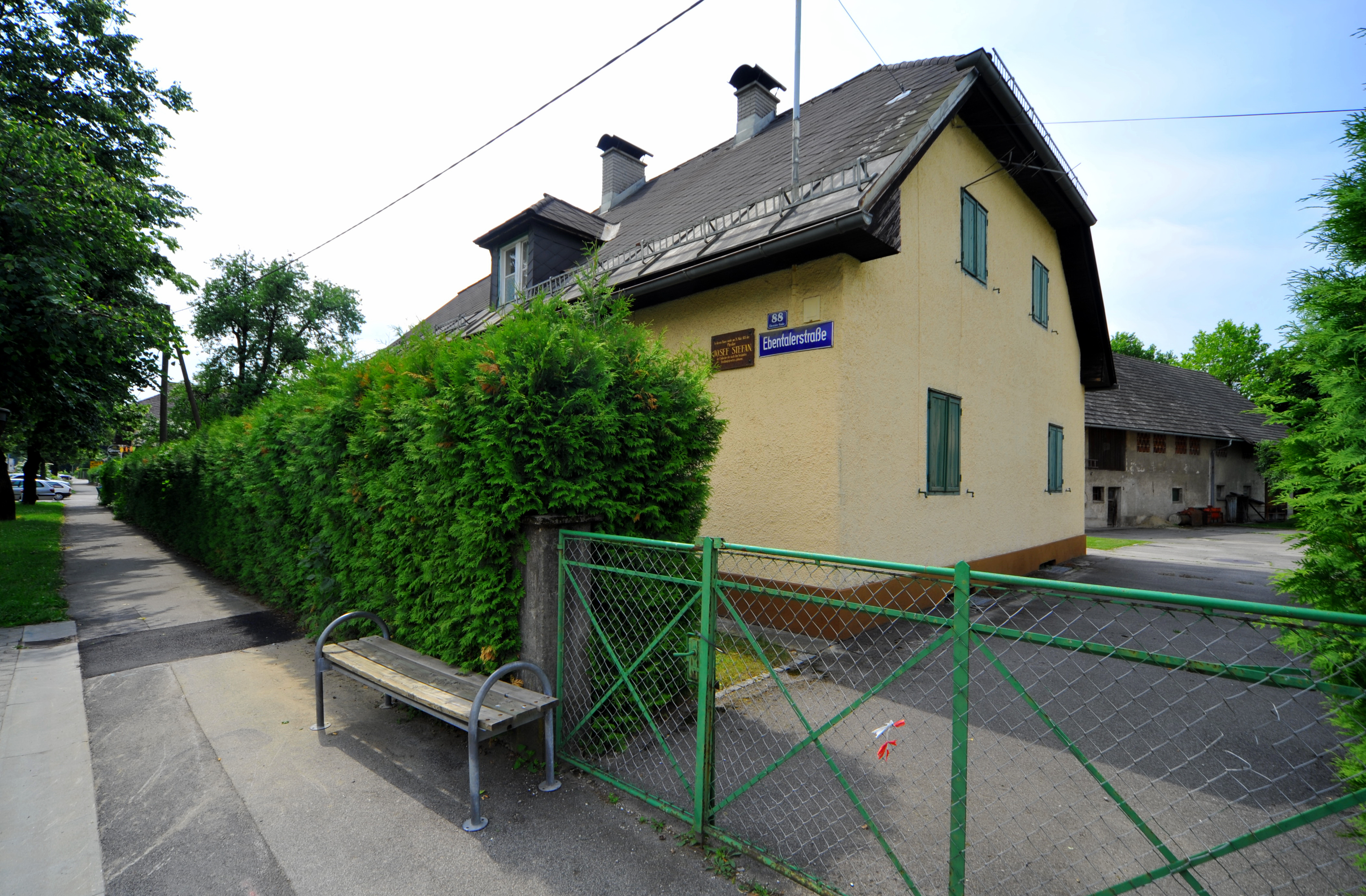 Birth-place of the famous physicist Josef Stefan on the Ebentaler Strasse #88 in the 11th district "Sankt Ruprecht" of Carinthia`s capital Klagenfurt on the Lake Woerth, Carinthia, Austria